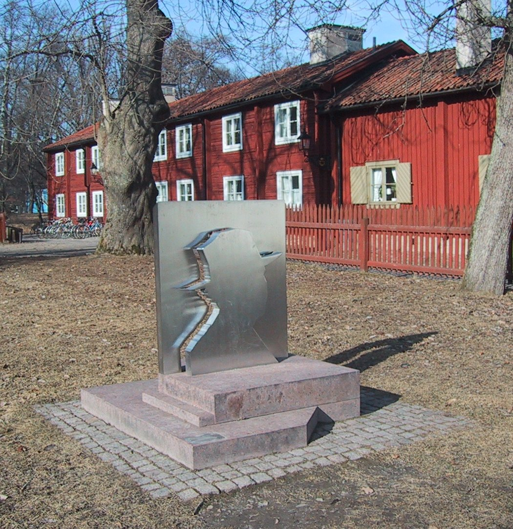 Profile of Hjalmar Bergman cut in steel, statue at Wadköping open air museum, Örebro.